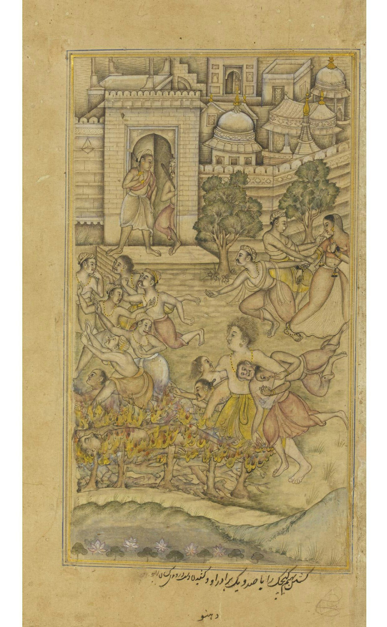 Episode of virata parwa.